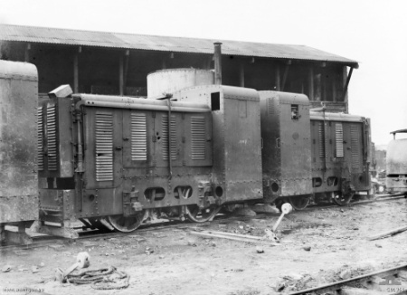 Western Front: Western Front (Belgium), Ypres Area, Ypres. A 40 horsepower petrol-electric tractor at Minico Yards, the headquarters of the 17th Australian Light Railway Operating Company. At the time the third battle of Ypres was raging.